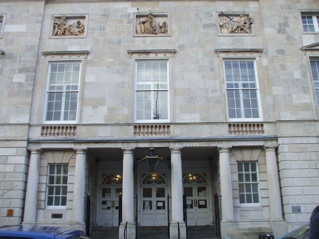 Lewes Law Courts, High Street, Lewes, East Sussex